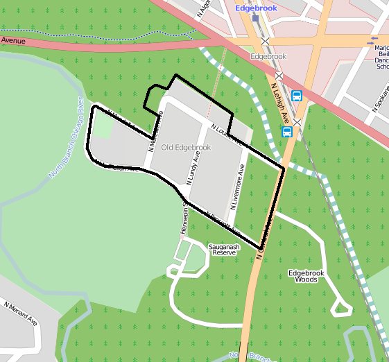 Old Edgebrook District This map may be incomplete, and may contain errors. Don't rely solely on it for navigation.